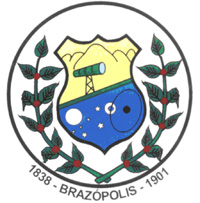 Seal of Municipality of Brasópolis